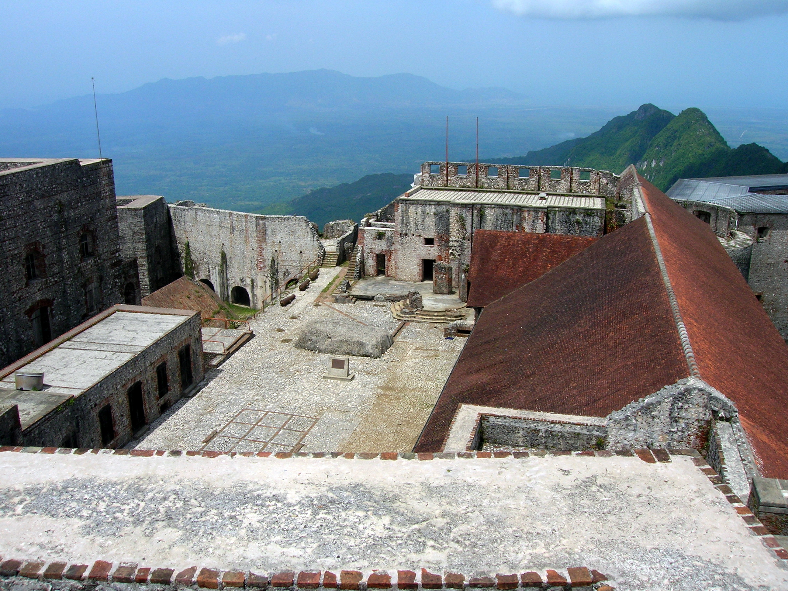 The Citadelle Laferrière, near Milot in Haiti, seen from the upper platform.